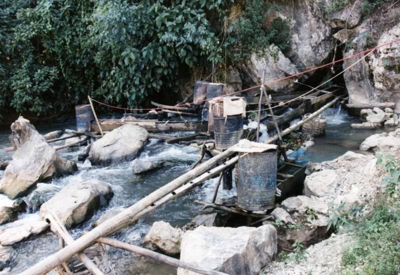 Micro Hydroelectric generation in NW Vietnam village. Set-up involves bamboo and wooden sluices channelling water into oil drums fitted with hand-carved bamboo turbines. Electricity generation was via motorbike alternators. Interestingly, high-tension power lines ran through the middle of the village, but clearly were not used by the villagers. Taken in October 2000 by Shermozle.